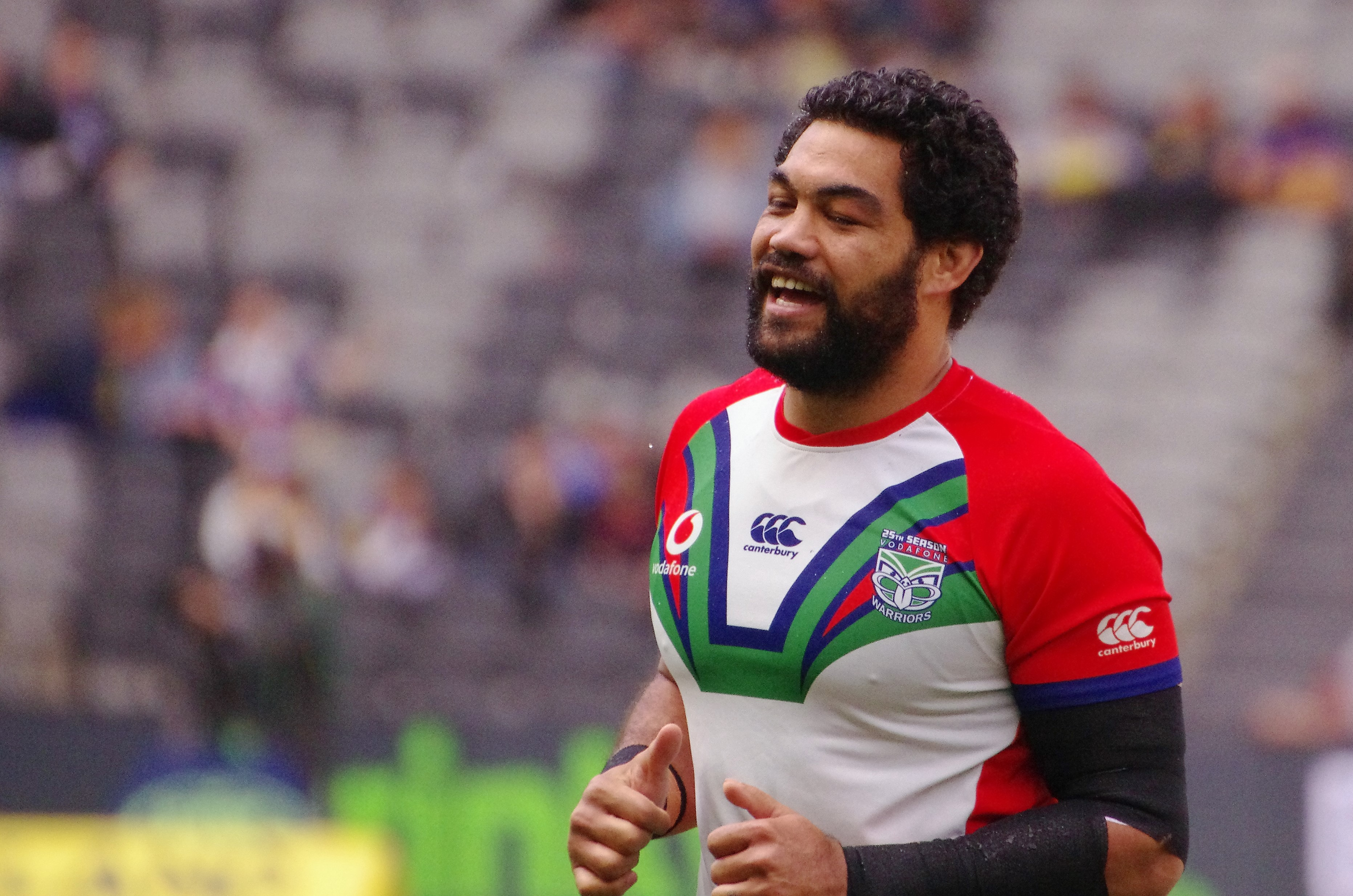 Adam Blair